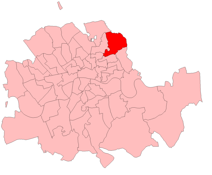 A map of Hackney South constituency within the Metropolitan Board of Works area, as it existed from 1885 to 1918.